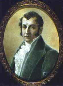 Painting of Jorge Tadeo Lozano de Pereira, President of the United Provinces of New Granada (now Colombia).